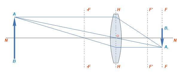 Decription Object